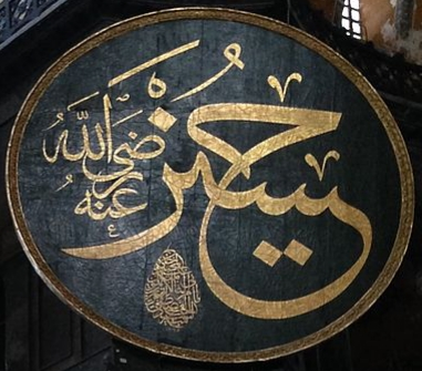 Calligraphy